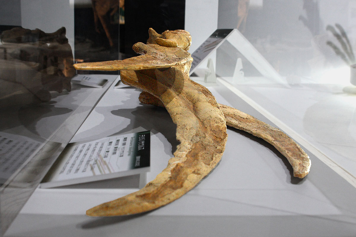 Therizinosaurus - 02